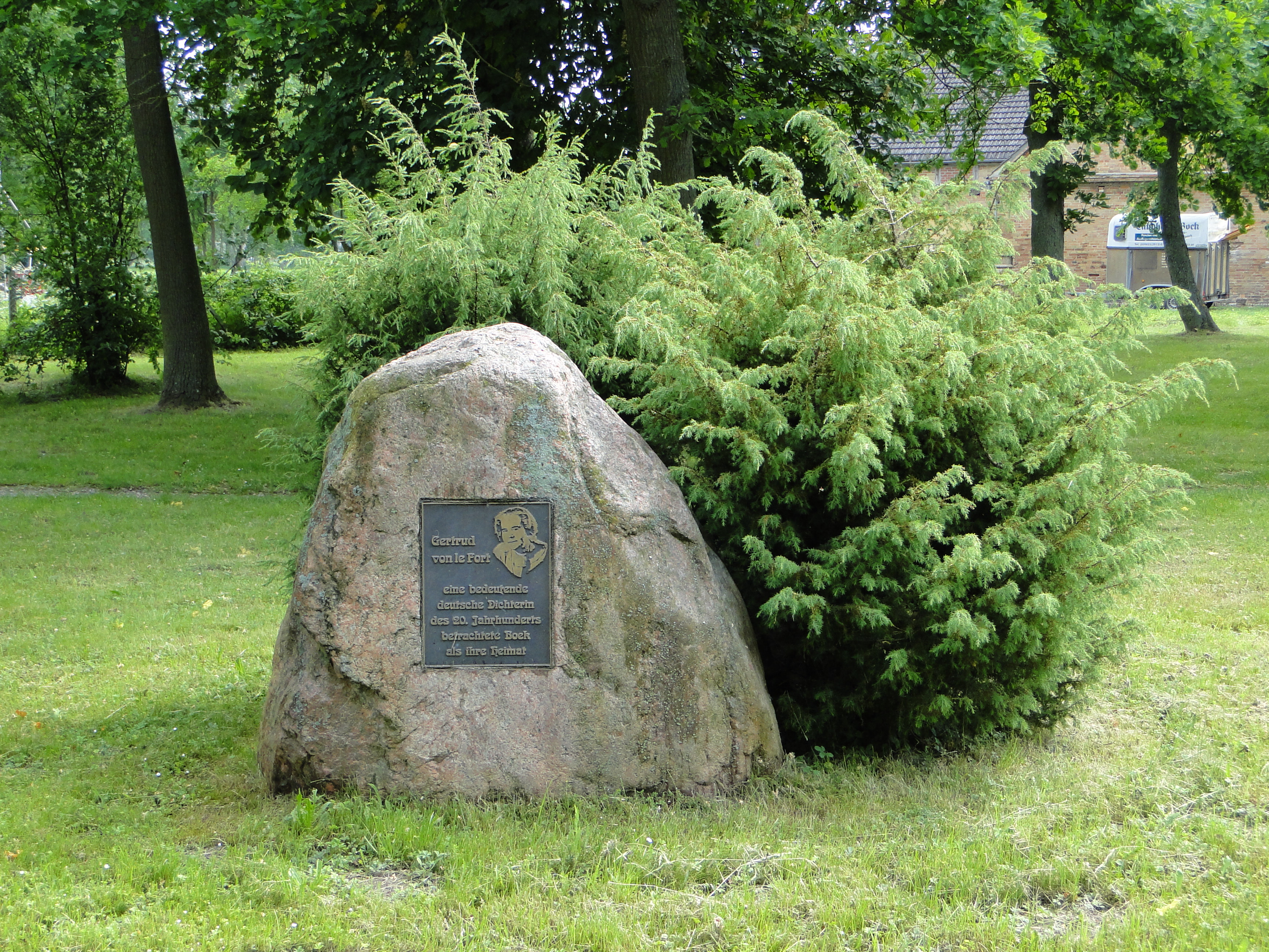 Memorial for Gertrud vom Le Fort at the former manor house in Boek, district Mecklenburgische Seenplatte, Mecklenburg-Vorpommern, Germany